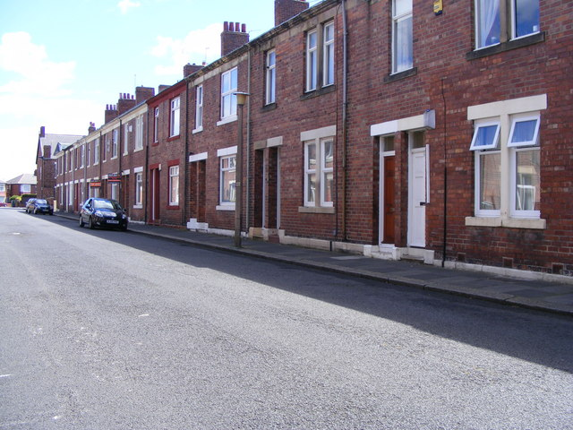 Cumberland Street, Wallsend Typical of many streets of flats on Tyneside. The road surface is now tarmac but the original basalt cobbles lie beneath the surface. The flats were built in the early years of the 20th century.